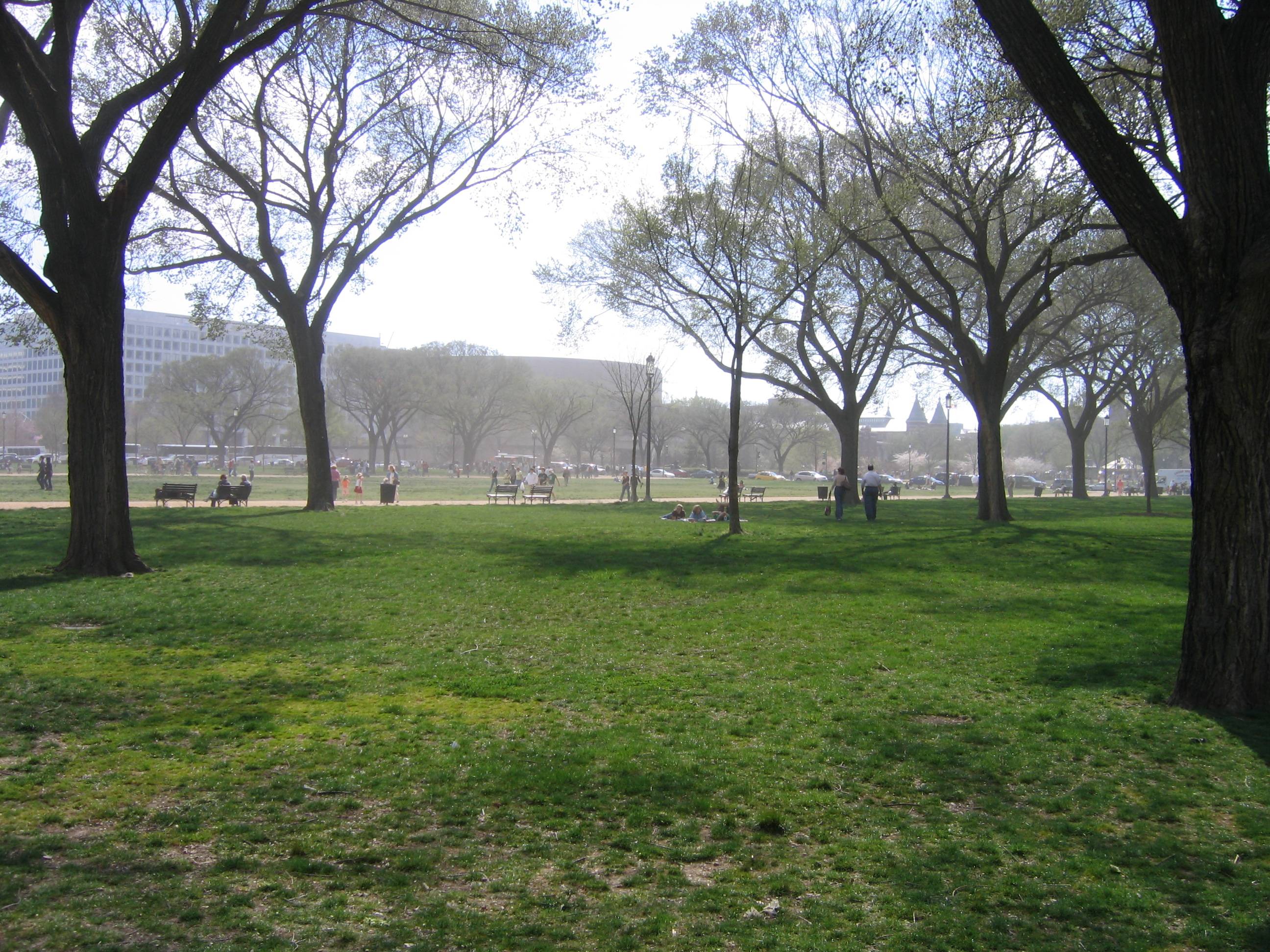 The National Mall in Washington D.C., USA.